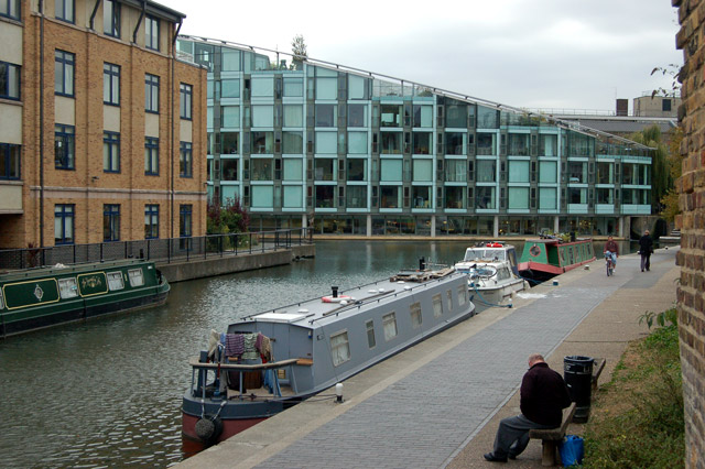 Looking west towards City Road Basin, Regents Canal, Islington